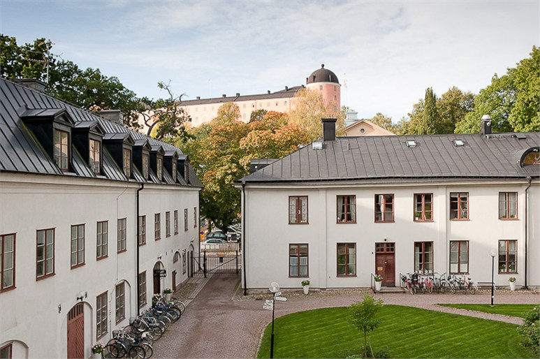 Grillska Gården, Uppsala.